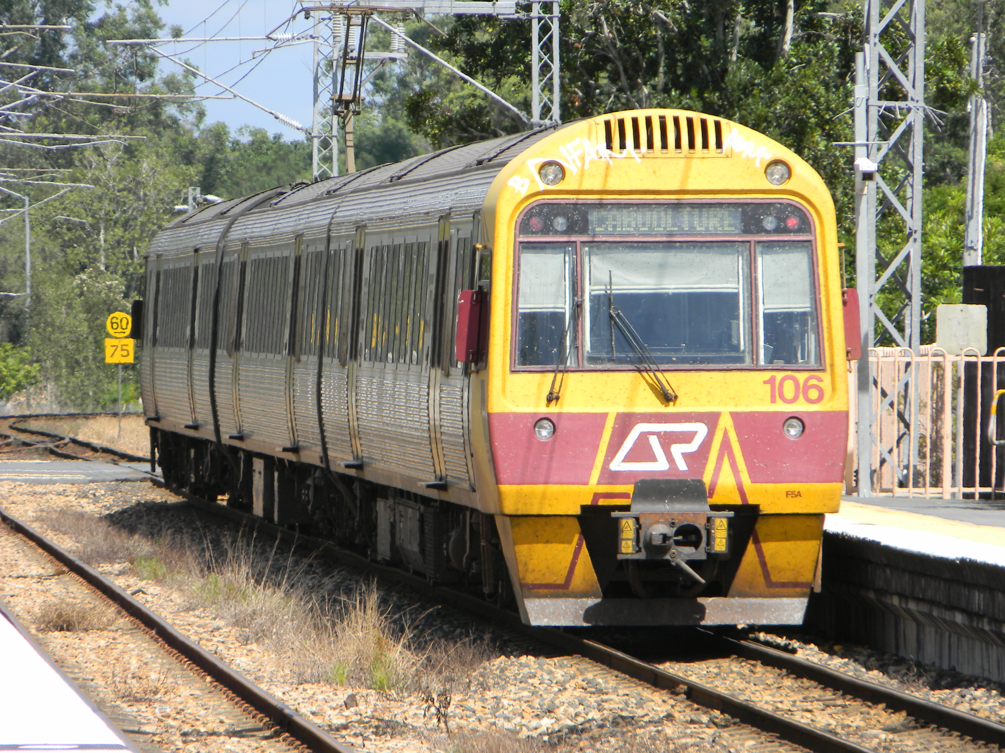 Caboolture-bound IMU 106 departs Landsborough Station with a service from Nambour - 5 April 2010.